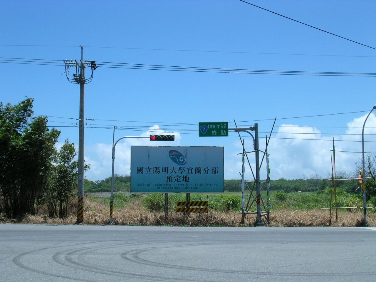 this photo taken by vegafish